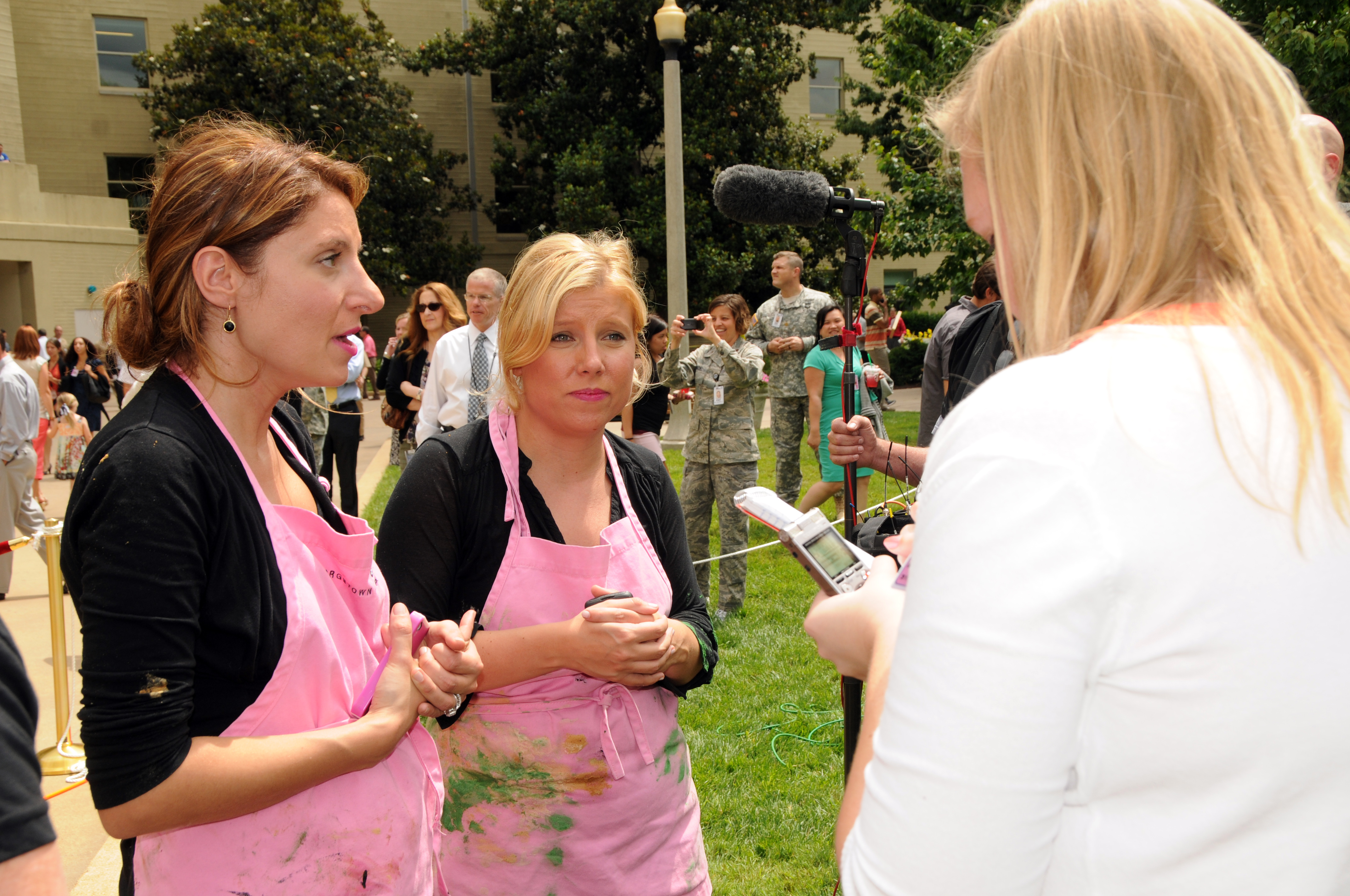 Georgetown Cupcake owners Katherine Kallinis, left, and Sophie LaMontagne, built an Abrams tank, from cupcakes, for the Army birthday celebration in the Pentagon courtyard, June 14, 2012.